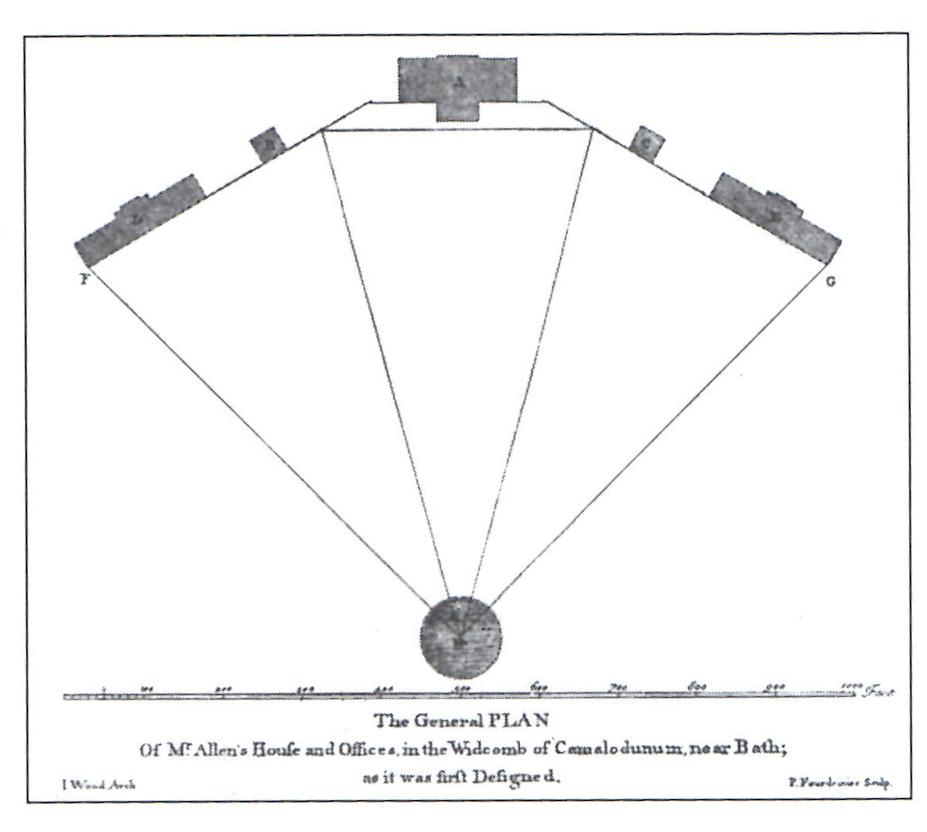 Prior Park general plan. from John Wood the Elder's An Essay Towards a Description of Bath (1749)